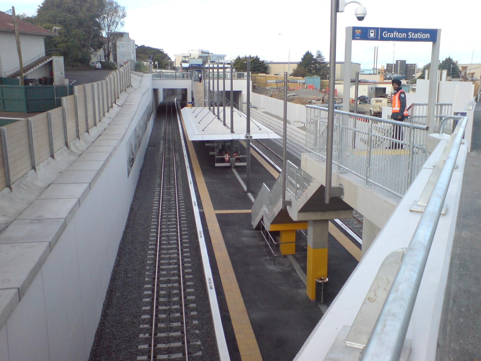 Looking eastwards at the new, finished Grafton Train Station in Auckland City, New Zealand. Park Road Bridge in the distance.